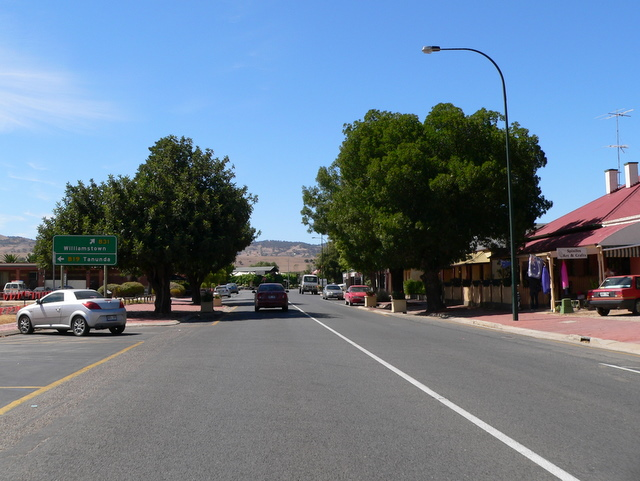 Looking south along Lyndoch's main street